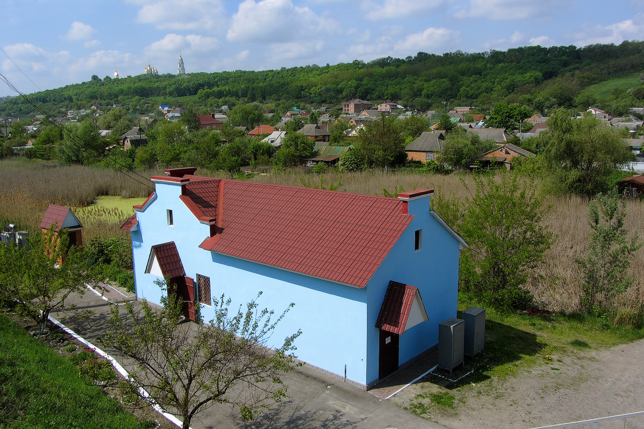 Kryvokhatki station 2015